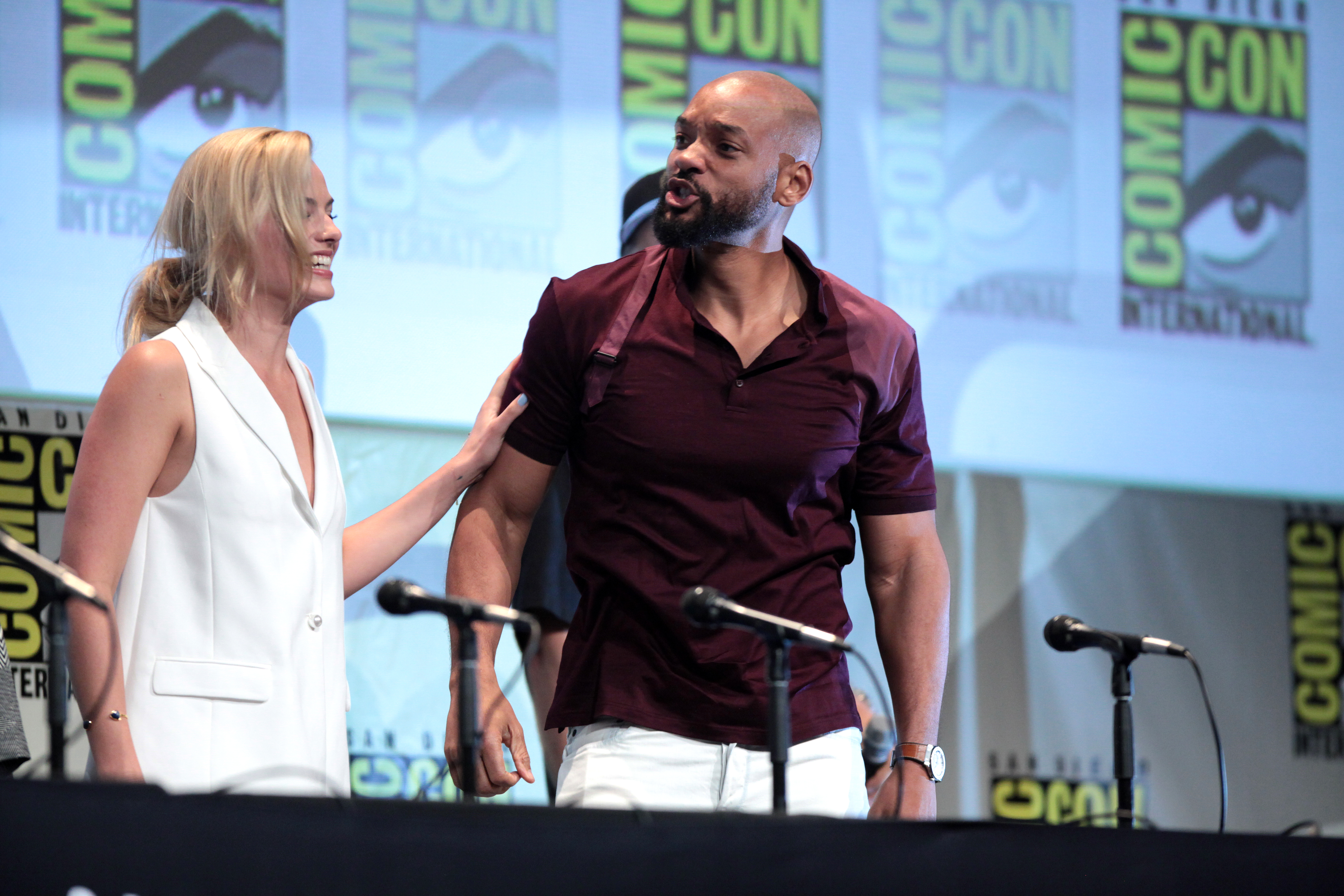 Margot Robbie and Will Smith speaking at the 2015 San Diego Comic Con International, for "Suicide Squad", at the San Diego Convention Center in San Diego, California.